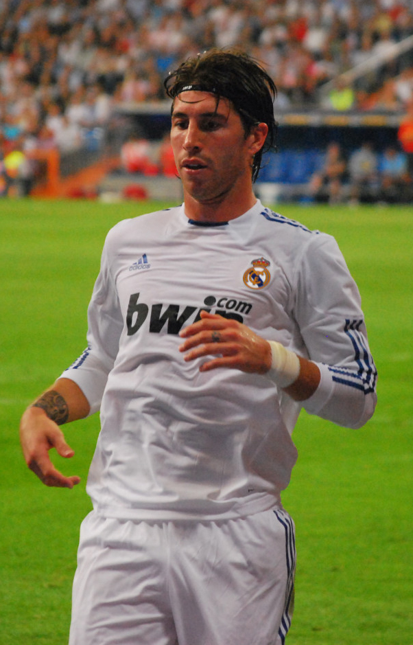 Sergio Ramos in Real Madrid. The size of this image was adjusted by Photoshop. The original photo was taken by Jan S0L0 in Chamartín,Madrid.